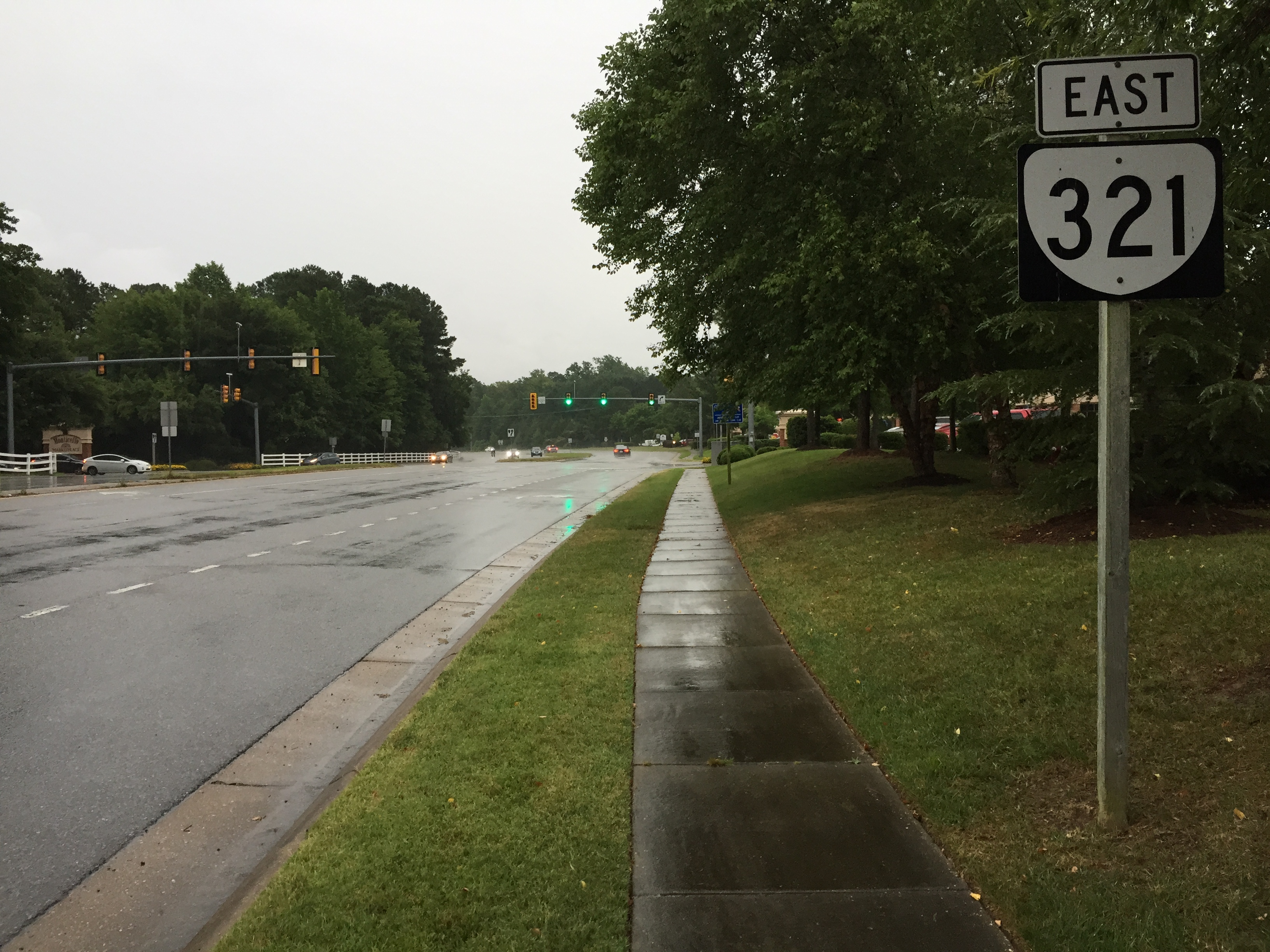 View east along Virginia State Route 321 (Monticello Avenue) at News Road in Jamestown Farms, James City County, Virginia